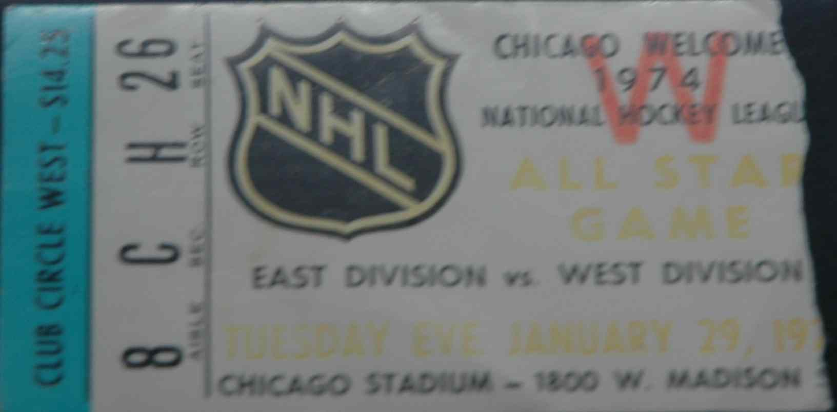 Ticket for the NHL All-Star Game 1974, shown in the Hall of Fame in Toronto